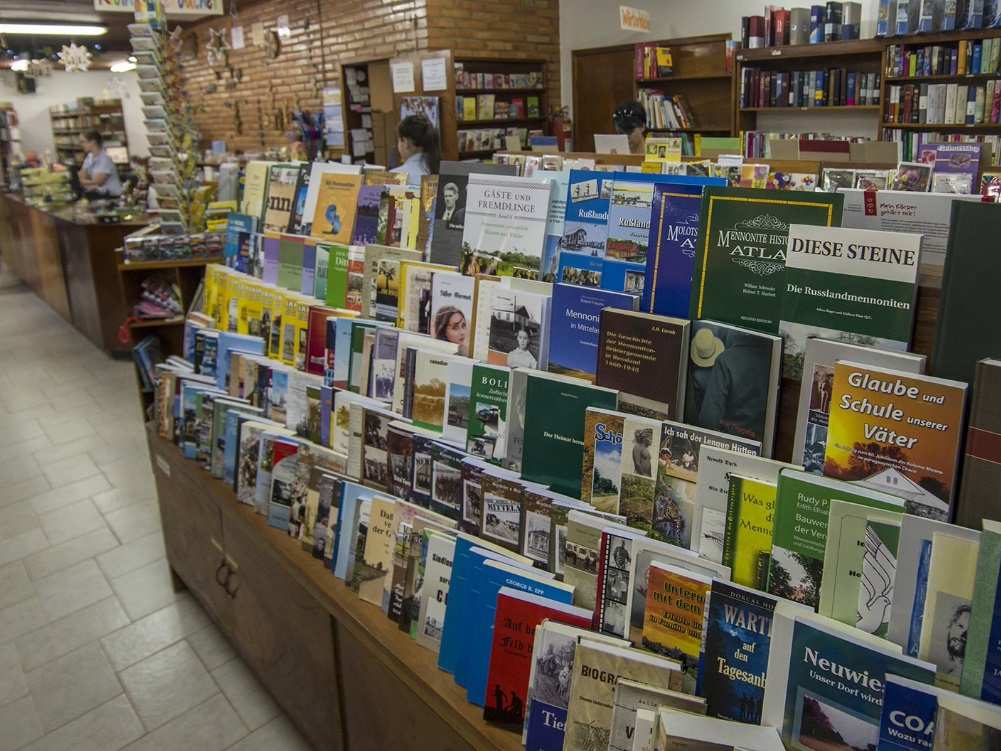 A library in Filadelfia, Paraguay